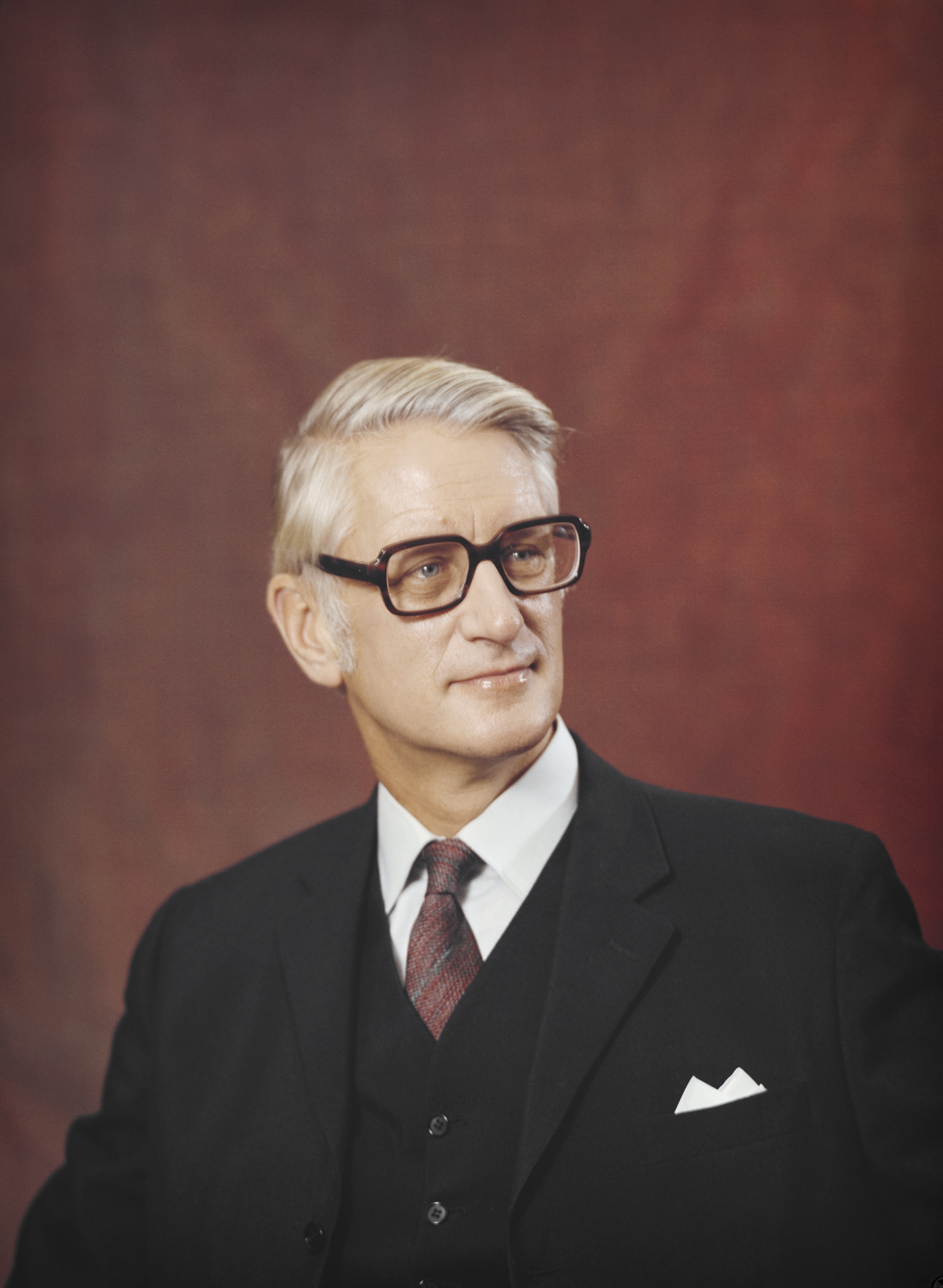 Photograph of the Finnish geographer and professor Stig Jaatinen (1918–1999).